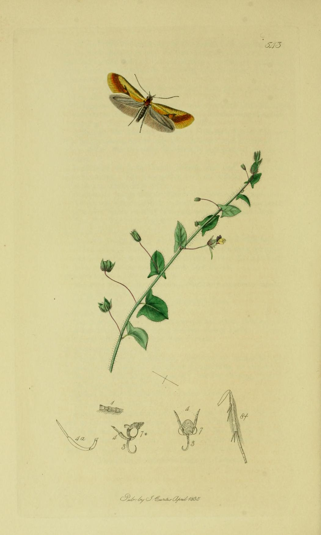 An illustration from British Entomology by John Curtis. Lepidoptera: Batia lunaris (Lesser Tawny Crescent).